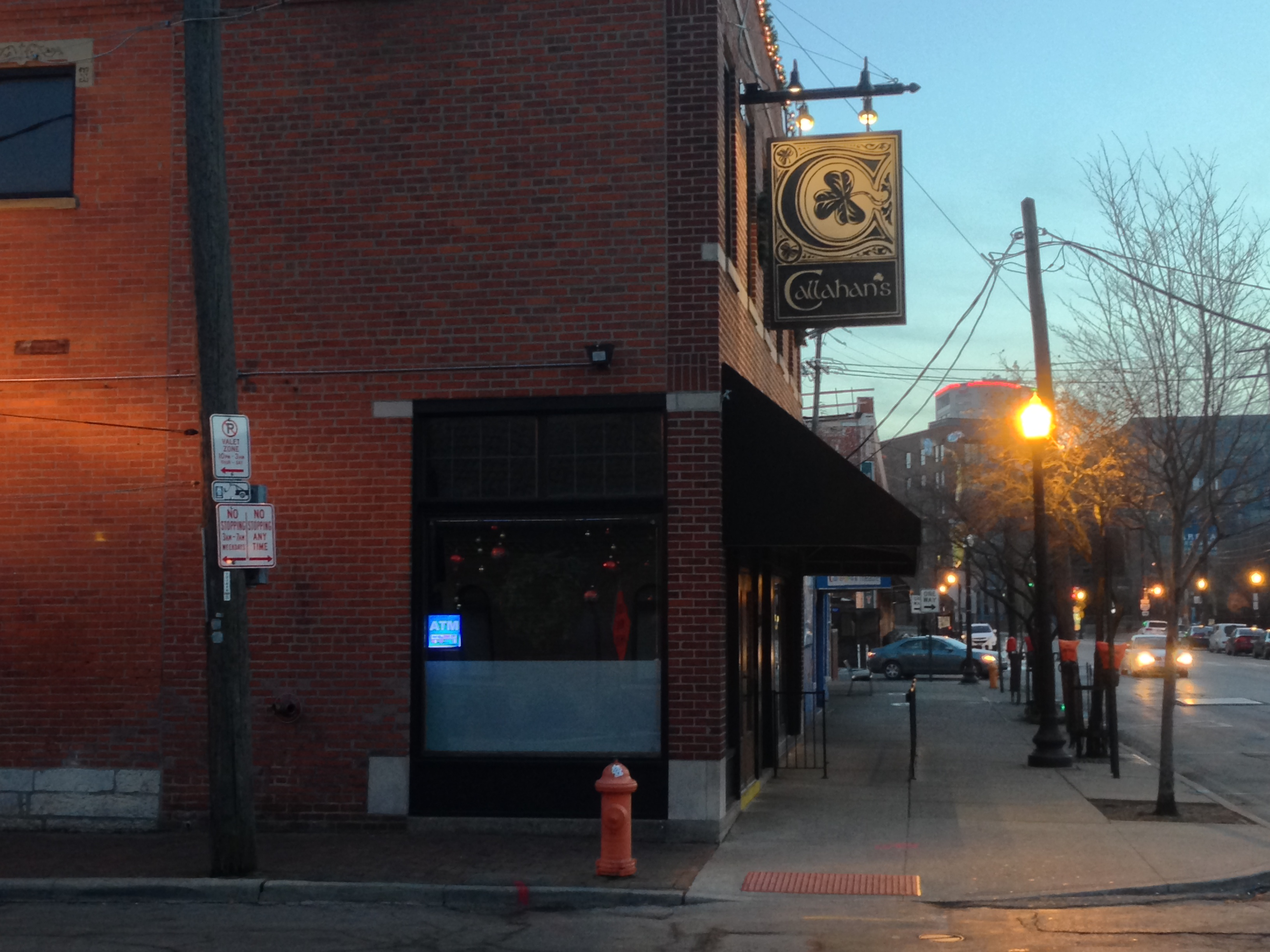 Callahans at Night